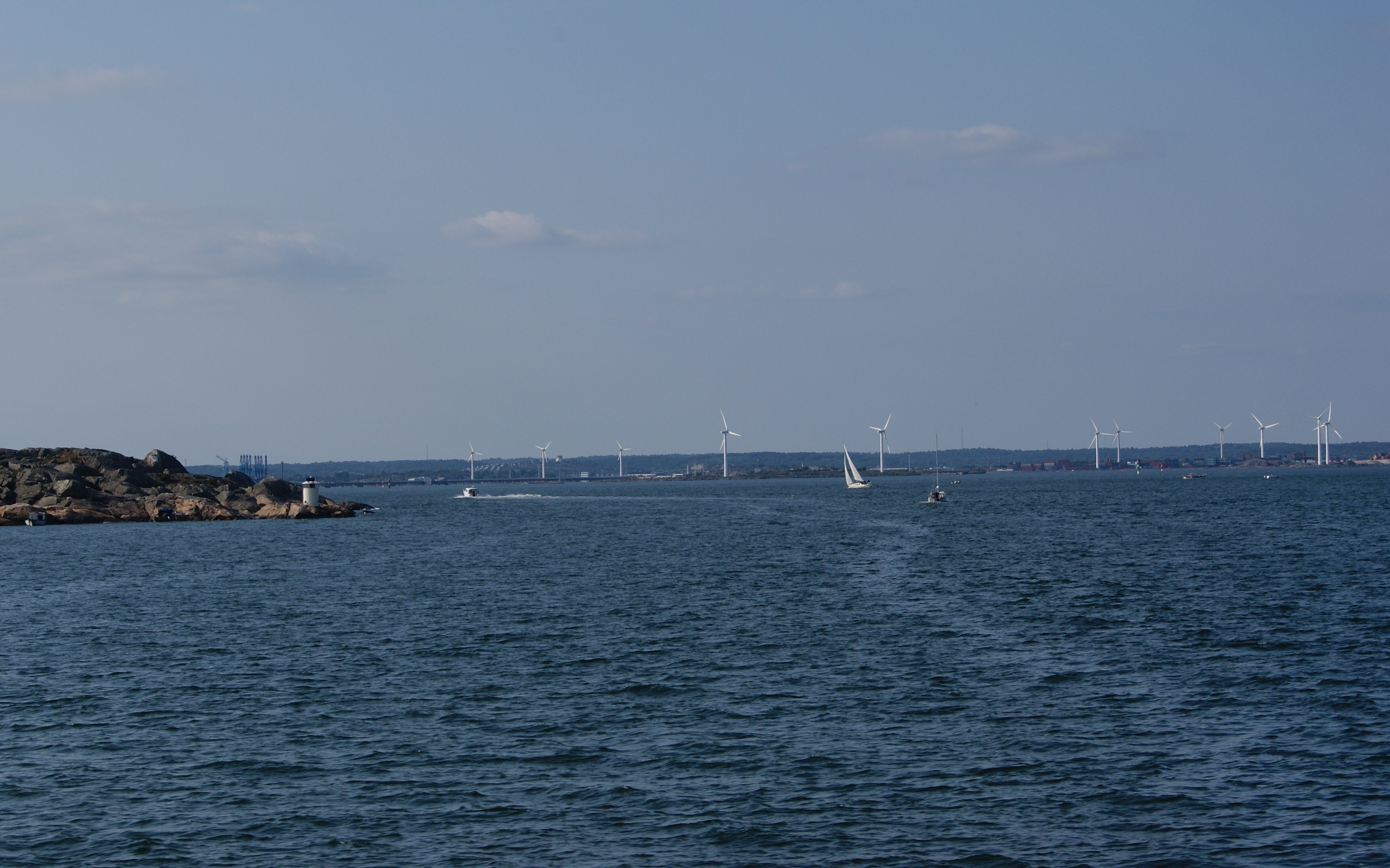 A windfarm next to Gothenburg's harbour, Sweden.